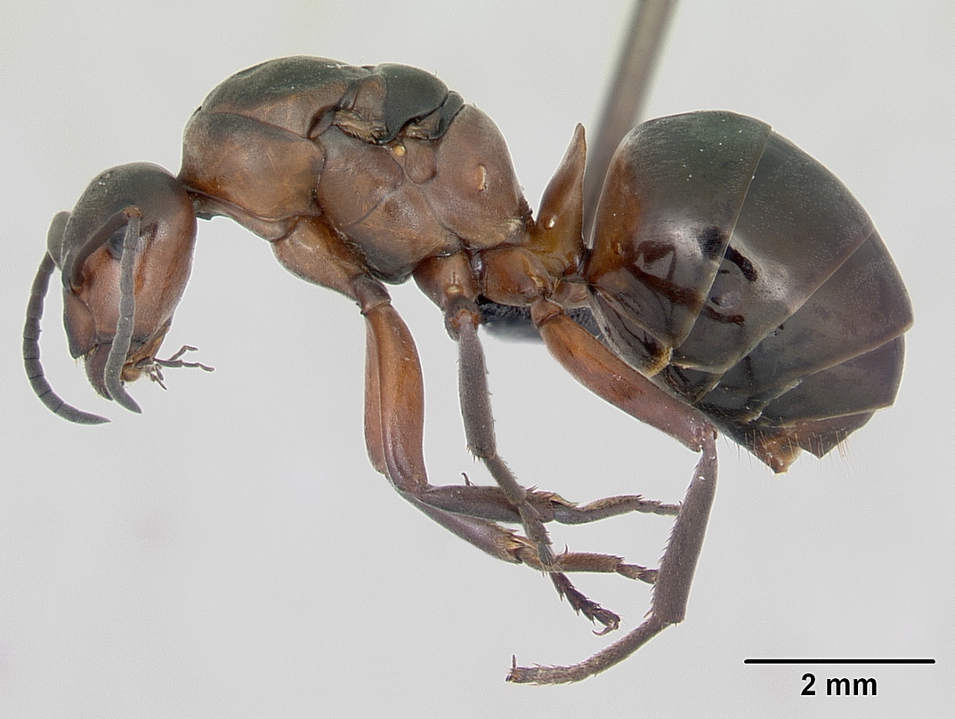 Profile view of ant Formica rufa specimen casent0173863.